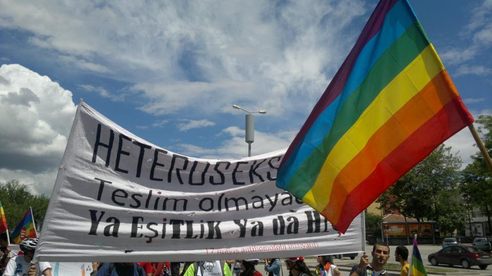 20 May 2012 “Homofobi ve Transfobi Karşıtı Yürüyüş” (Homofobia and Transfobia Square, Ankara.